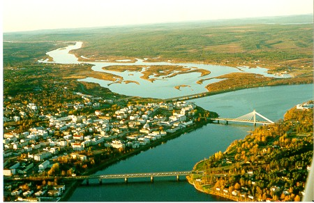 Aerial view of Rovaniemi, Finland